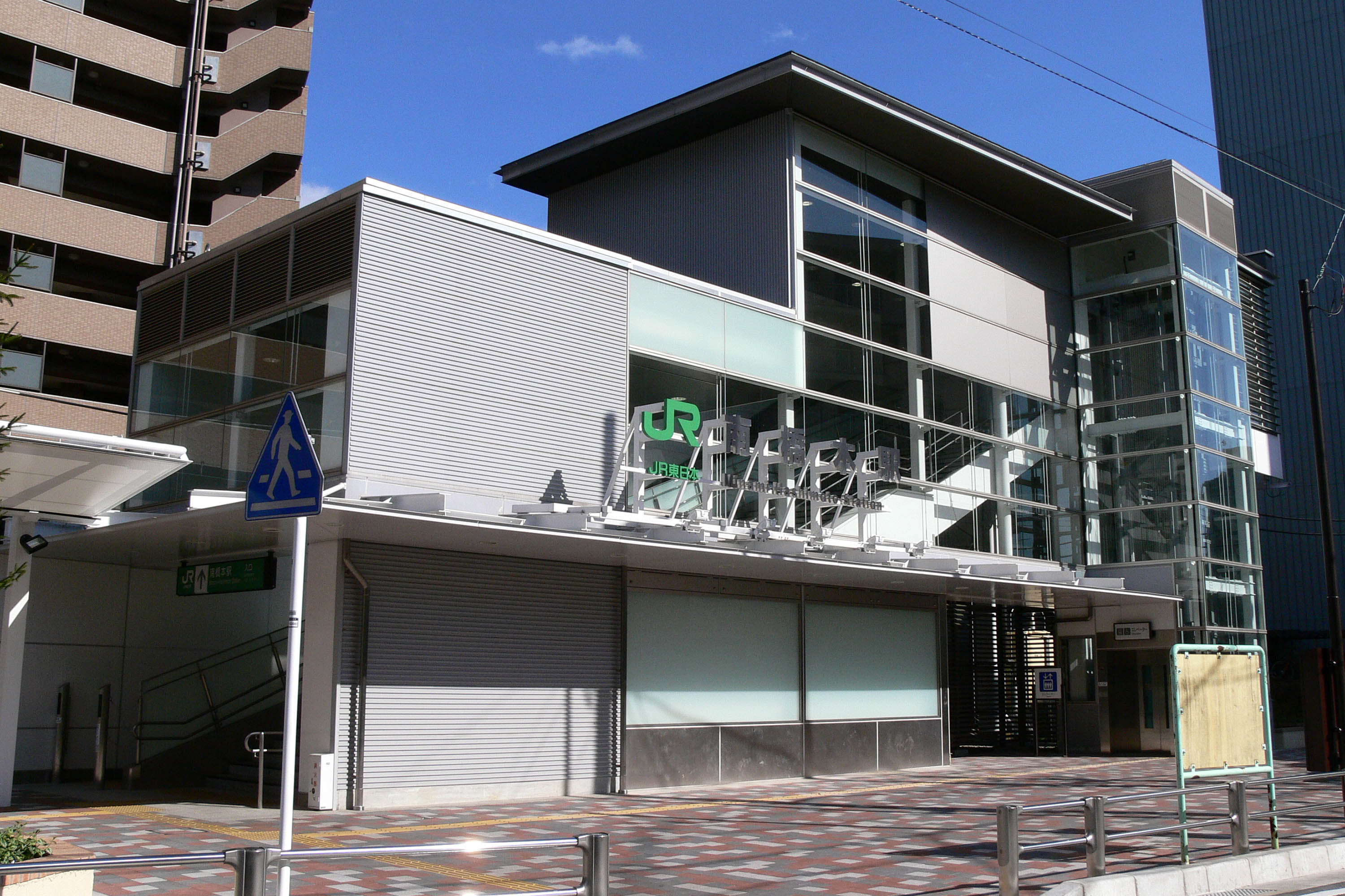 Minami Hashimoto station west side.南橋本駅